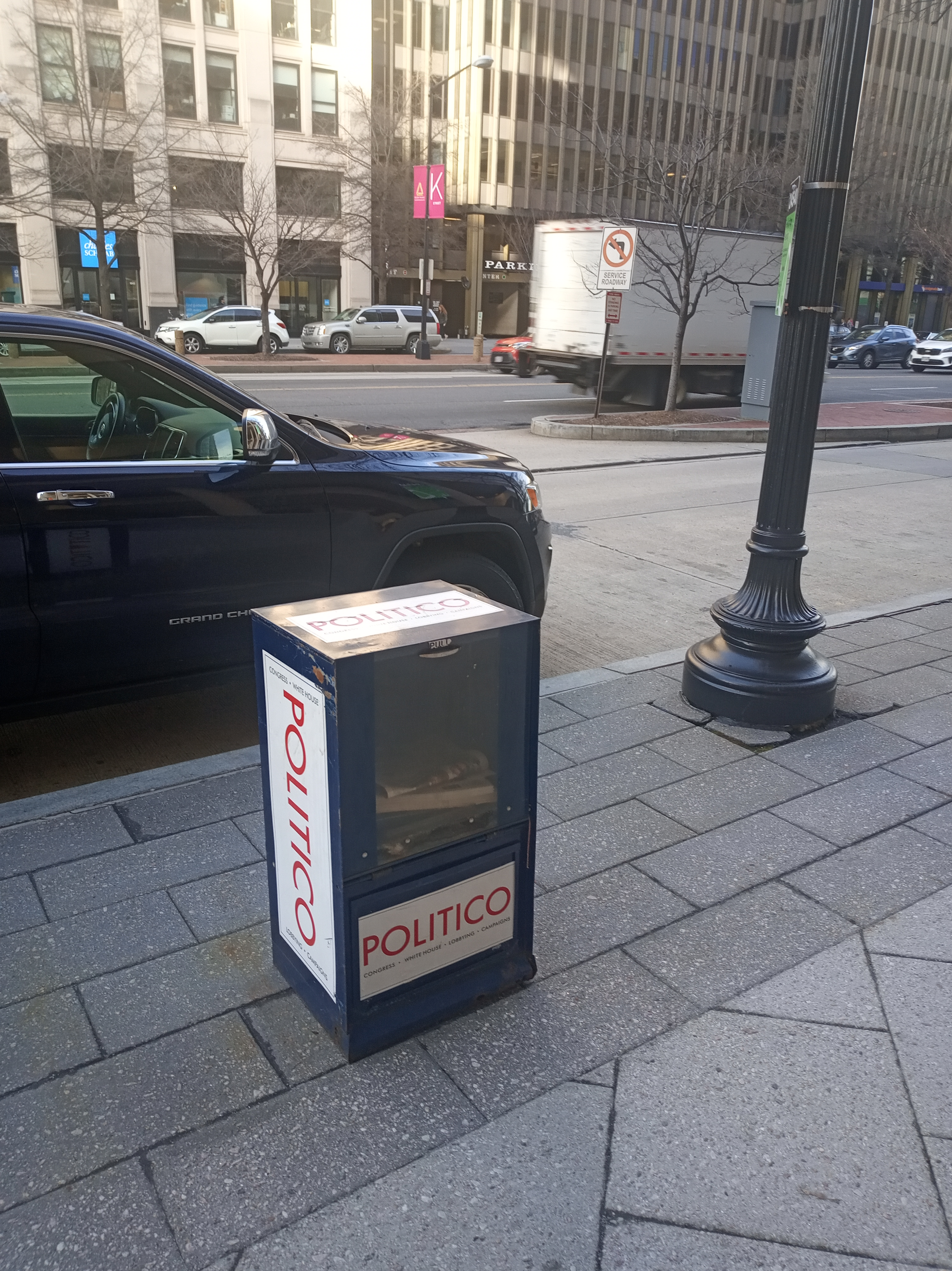 Vending box in the Golden Triangle neighborhood of Washington DC where passersby may acquire a free printout of a political blog called Politico.